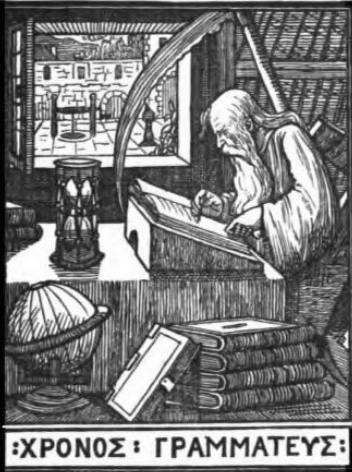 A personification of Time as a writer. "ΧΡΟΝΟΣ ΓΡΑΜΜΑΤΕΥΣ" in Greek.